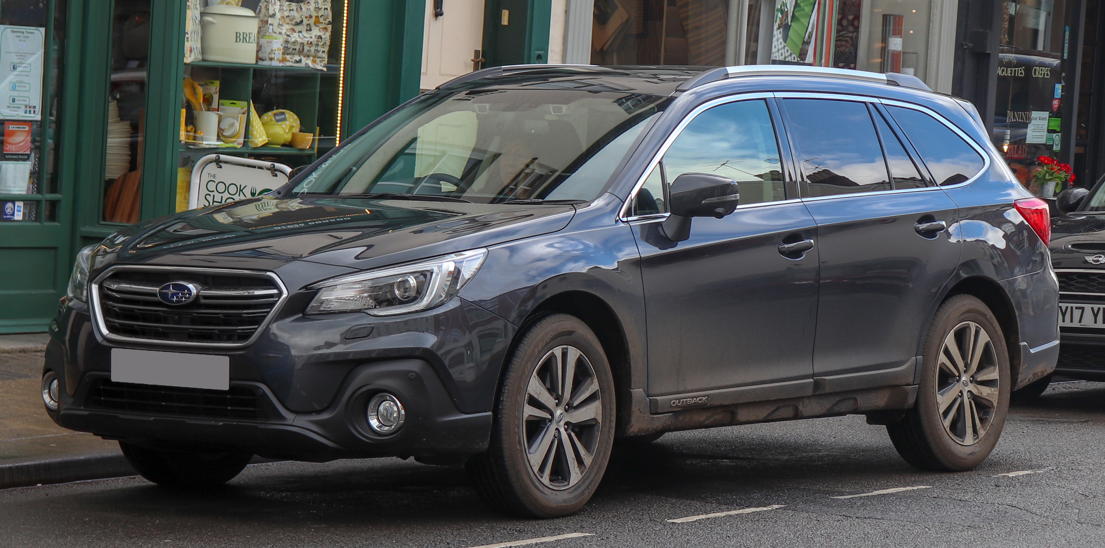 2018 Subaru Outback SE Premium Symmetrical CVT 2.5 Front Taken in Leamington Spa